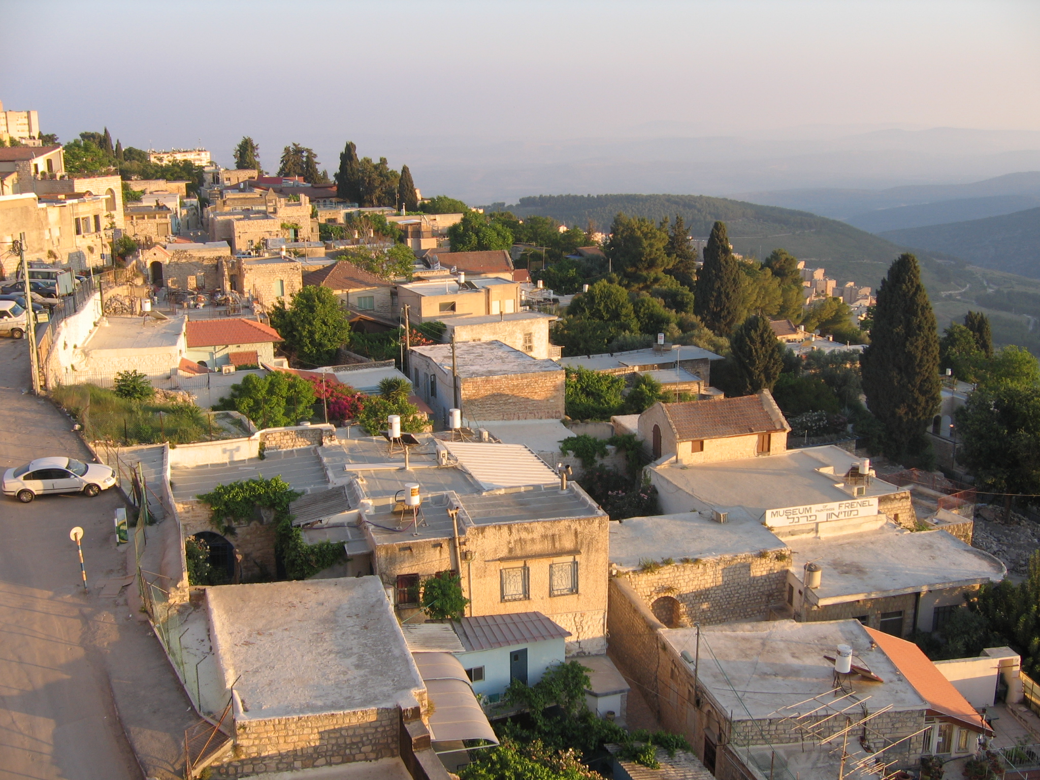 Safed (צפת in Hebrew), a city in northern Israel. Taken by Beny Shlevich (Volland), on May 29th, 2006.